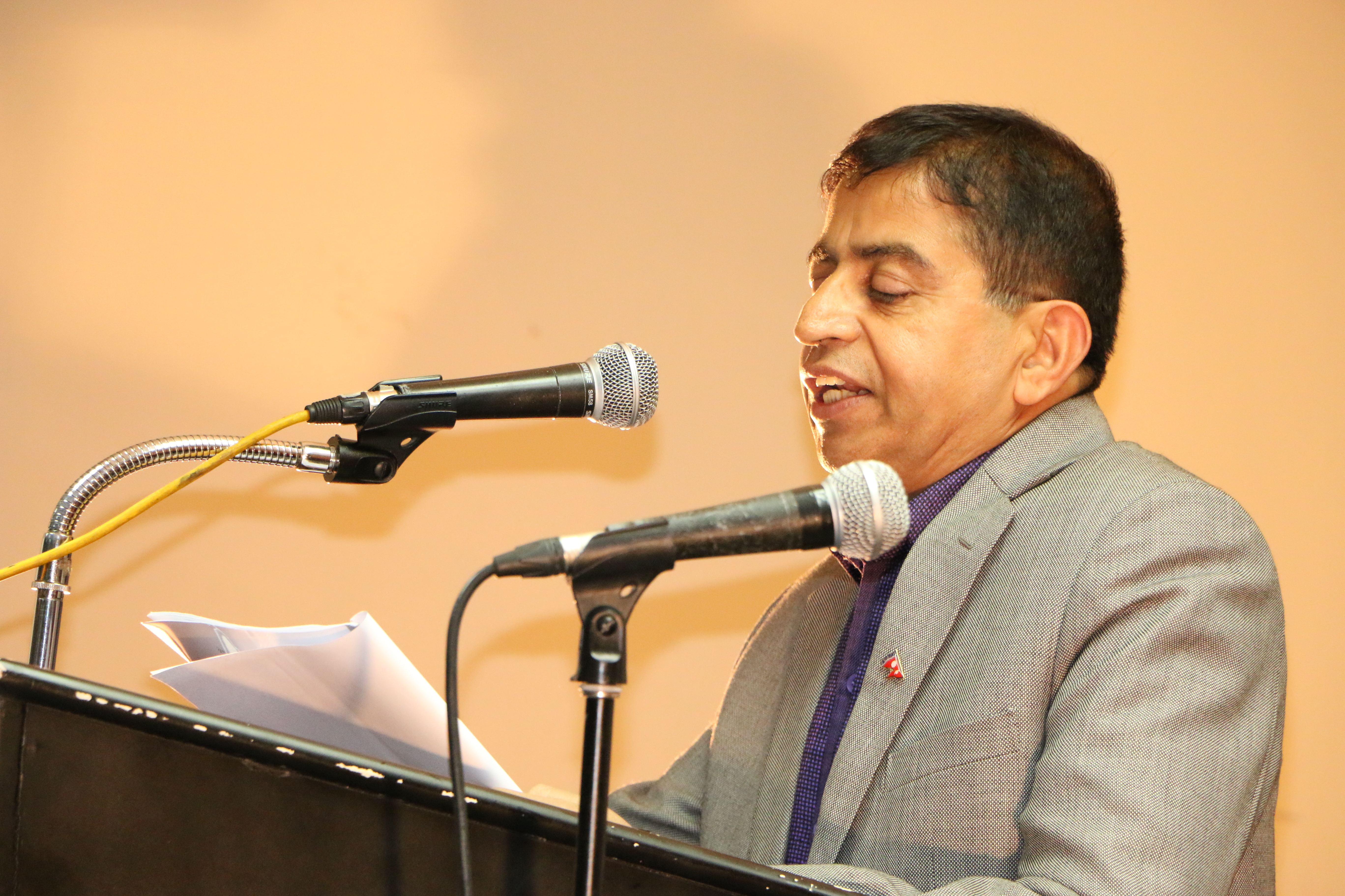 Laxman Gamnage is a author of Nepali literature.